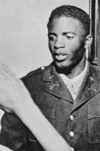 Photo of Jackie Robinson in his military uniform, during a visit to his Pasadena family home, c. 1943.